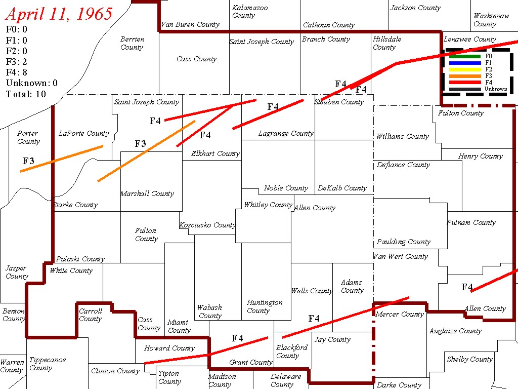 Graphic map of tornado tracks from the 1965 Palm Sunday tornado outbreak, in northern Indiana